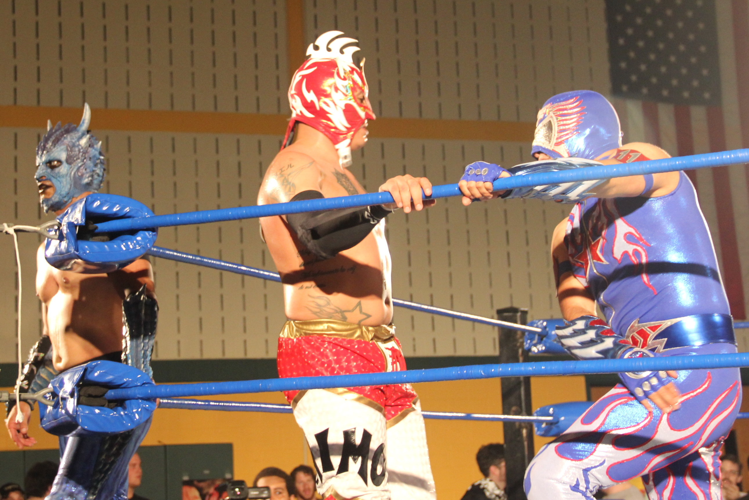 Team AAA (from left to right: Drago, Fenix & Aero Star) at Chikara's King of Trios event in September 2015.